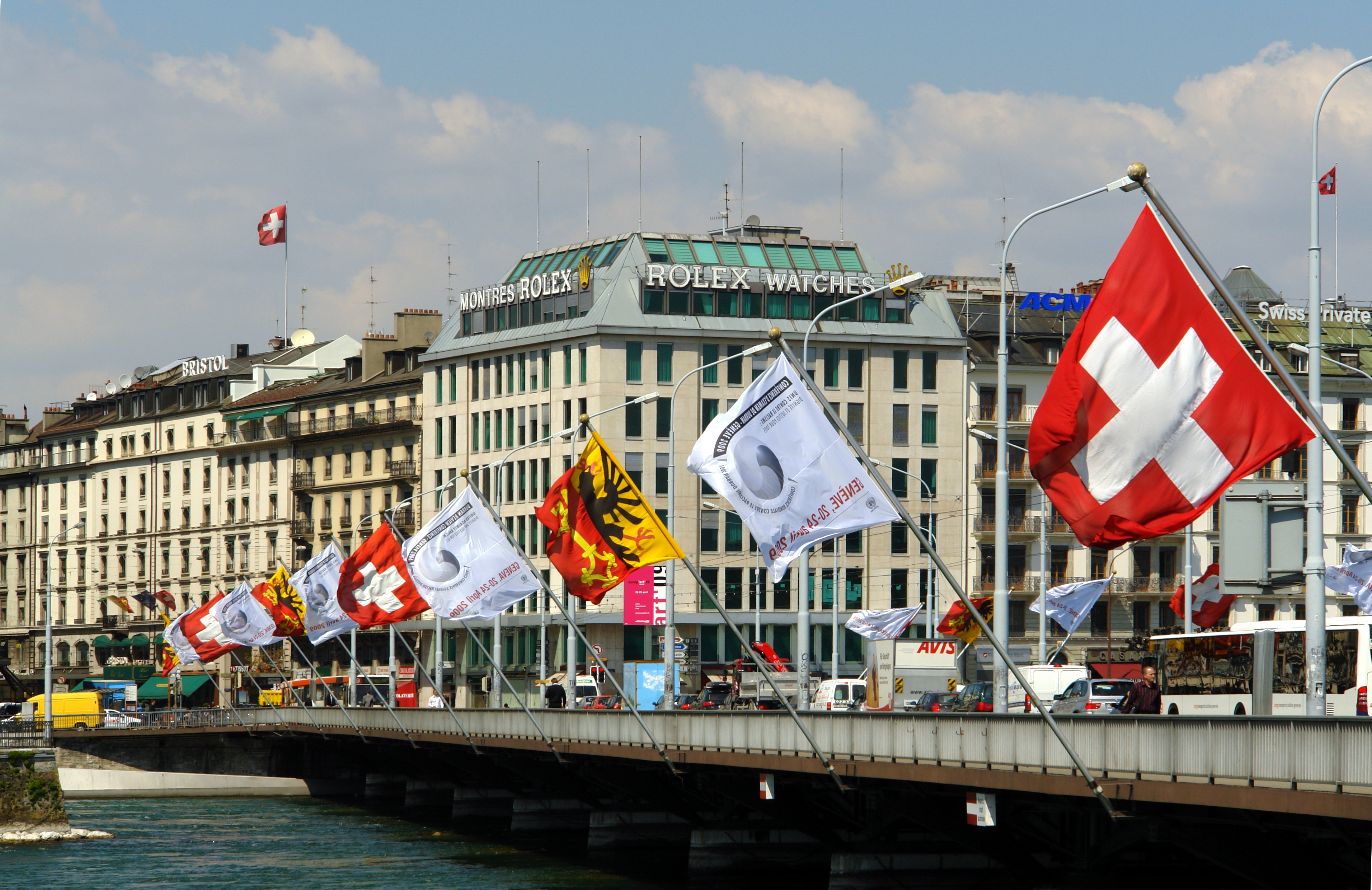 Mont-Blanc bridge and flags, Geneva.